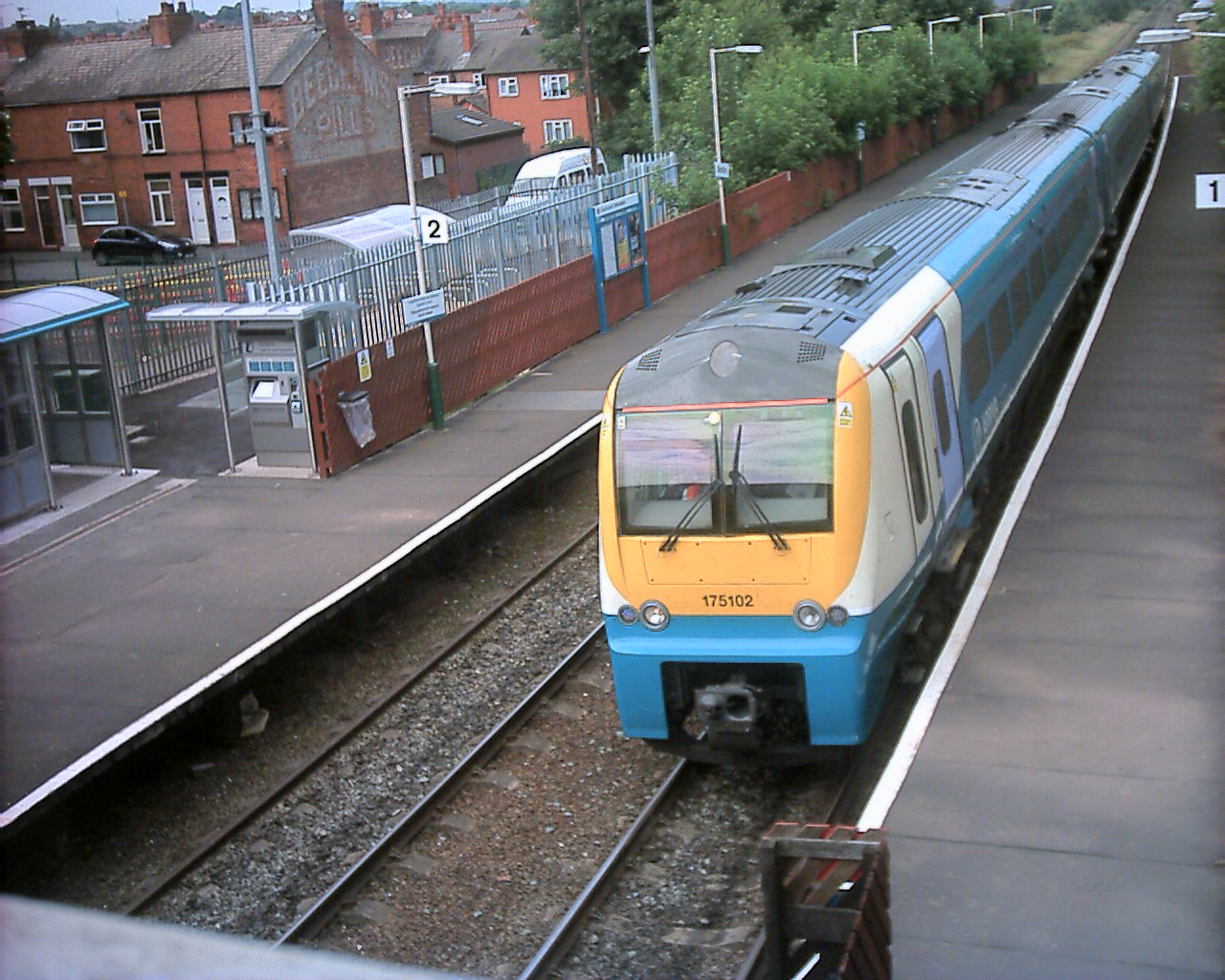 Low level platforms on the North Wales Coast Line at Shotton railway station, Flintshire, North Wales. 175102 is about to move off eastbound operating on an Arriva Wales Llandudno-Manchester Picadilly service.